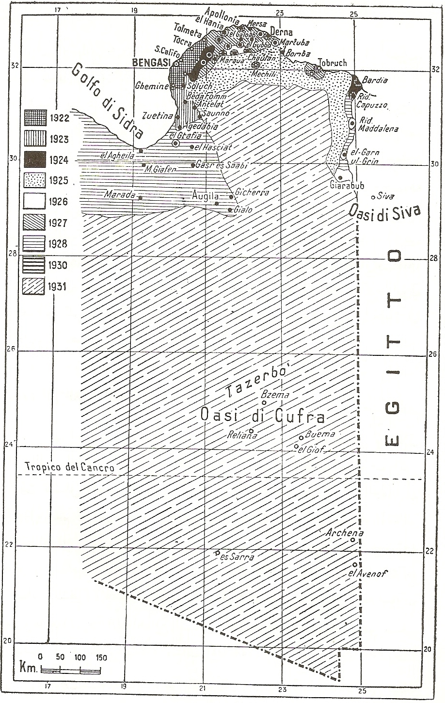 Italian pacification of Cyrenaica (1923-1931).